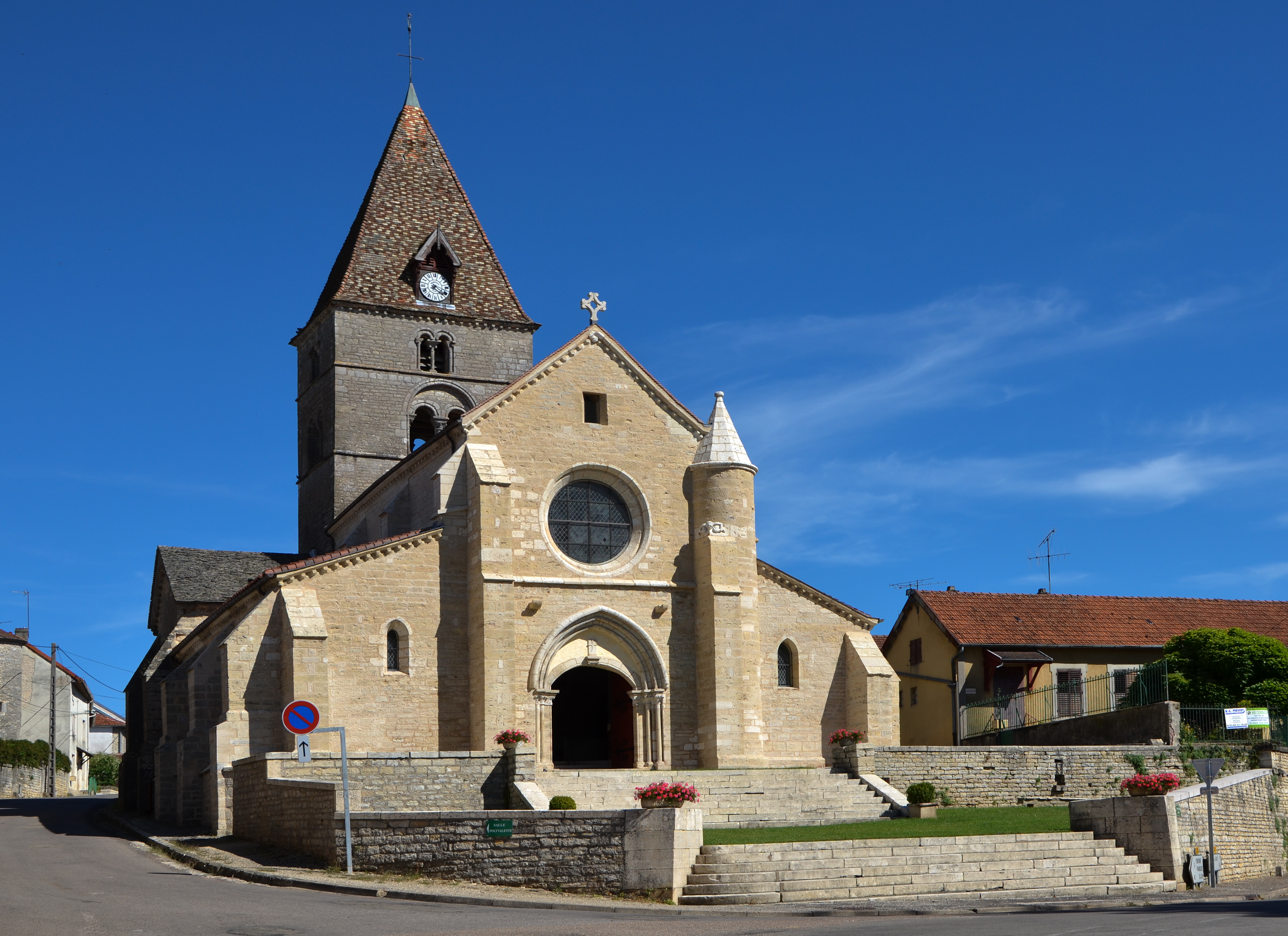 Church of Seine-sur-Vingeanne, Côte d'Or, Bourgogne, France. Construction: 13th century; 14th century. .